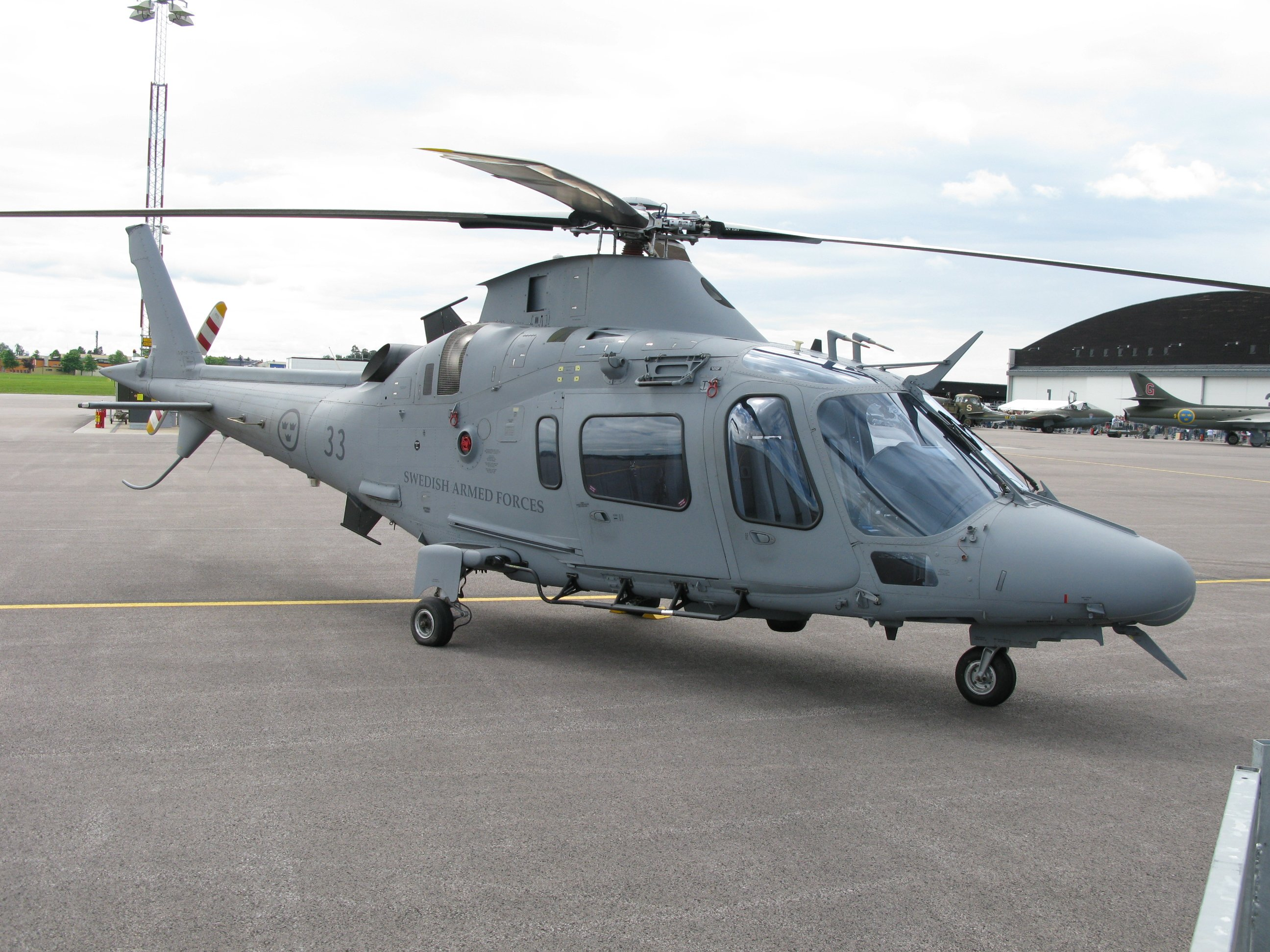 Agusta A109, Swedish Armed Forces s/n 15033, one of 20 Hkp15 operated by the Swedish Armed Forces. Event: Swedish Armed Forces’ Air Show at Malmen, Linköping 2010.